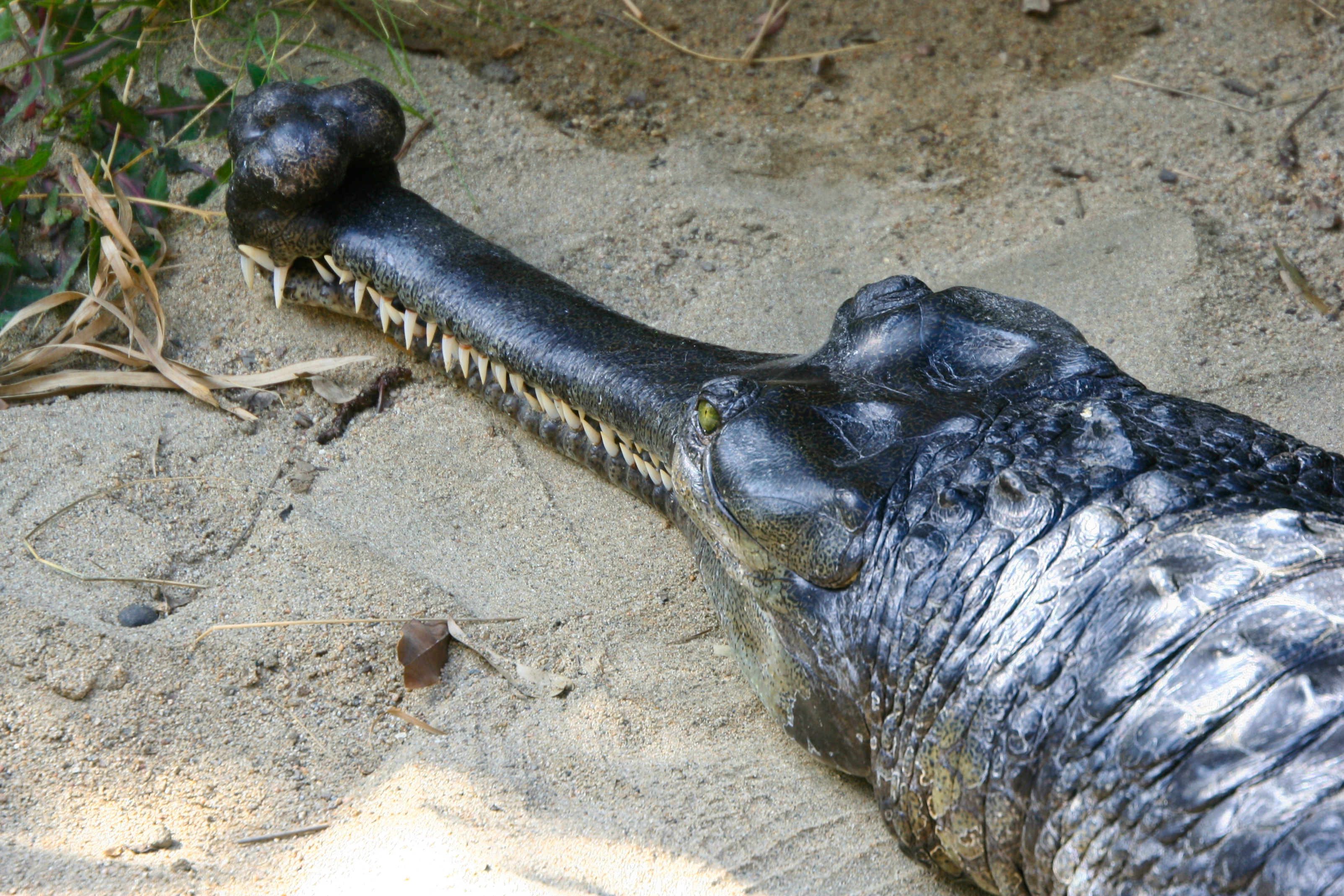 Gharial at San Diego Zoo, USA.